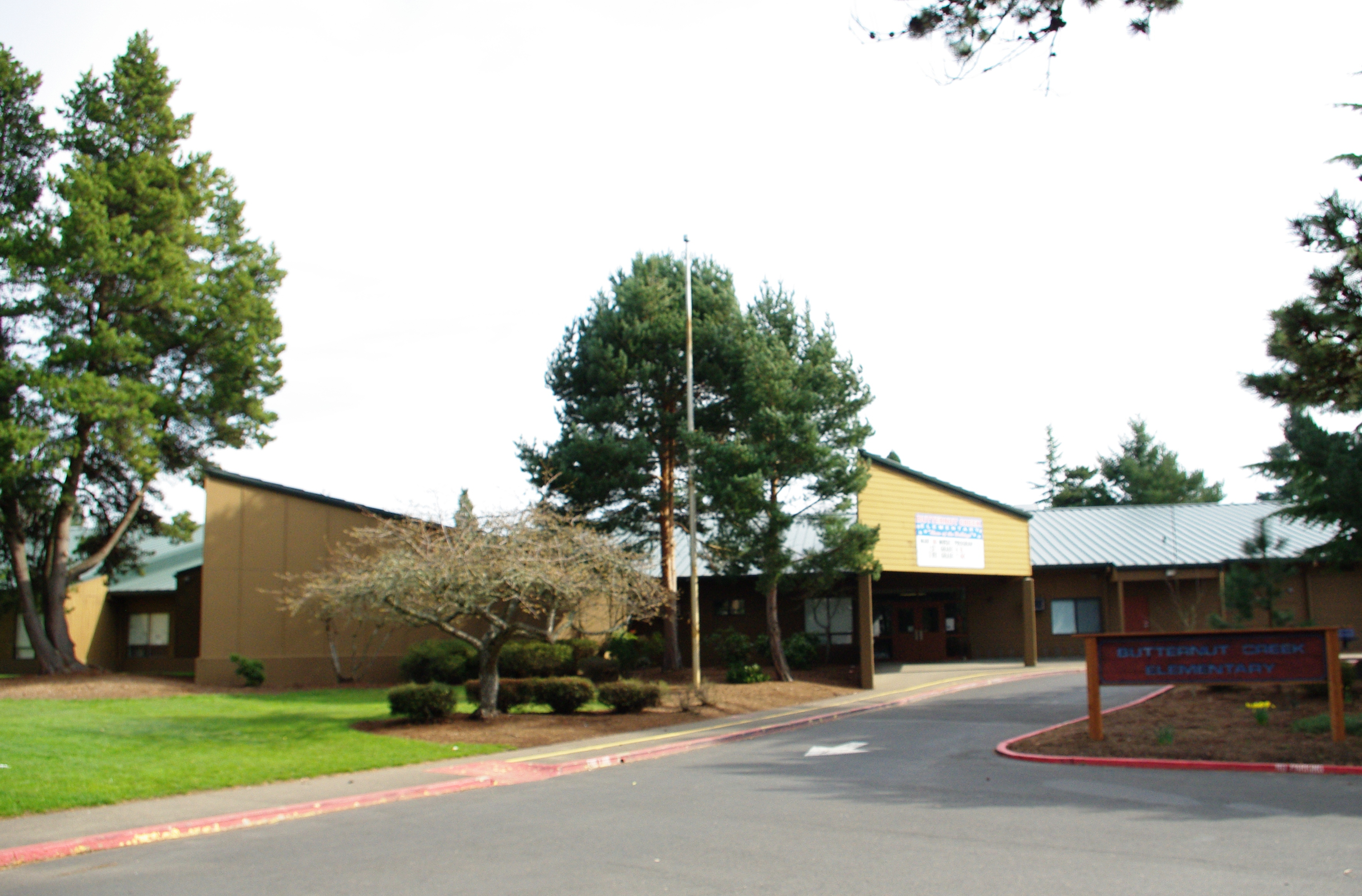 Butternut Creek Elementary School in the Reedville/Aloha area in Oregon. Part of the Hillsboro School District.